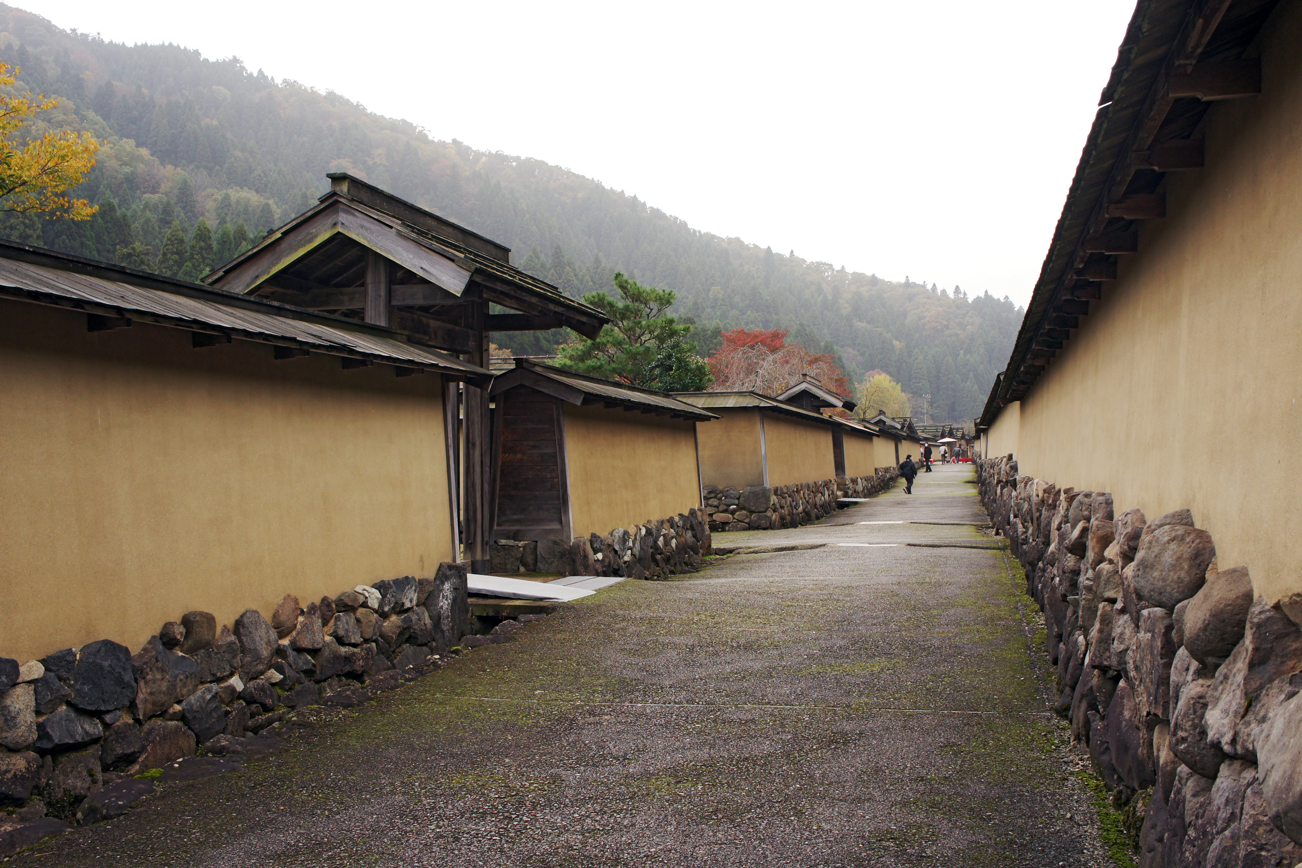 Fukugen-machinami of Ichijōdani Asakura Family Historic Ruins in Fukui, Fukui prefecture, Japan.